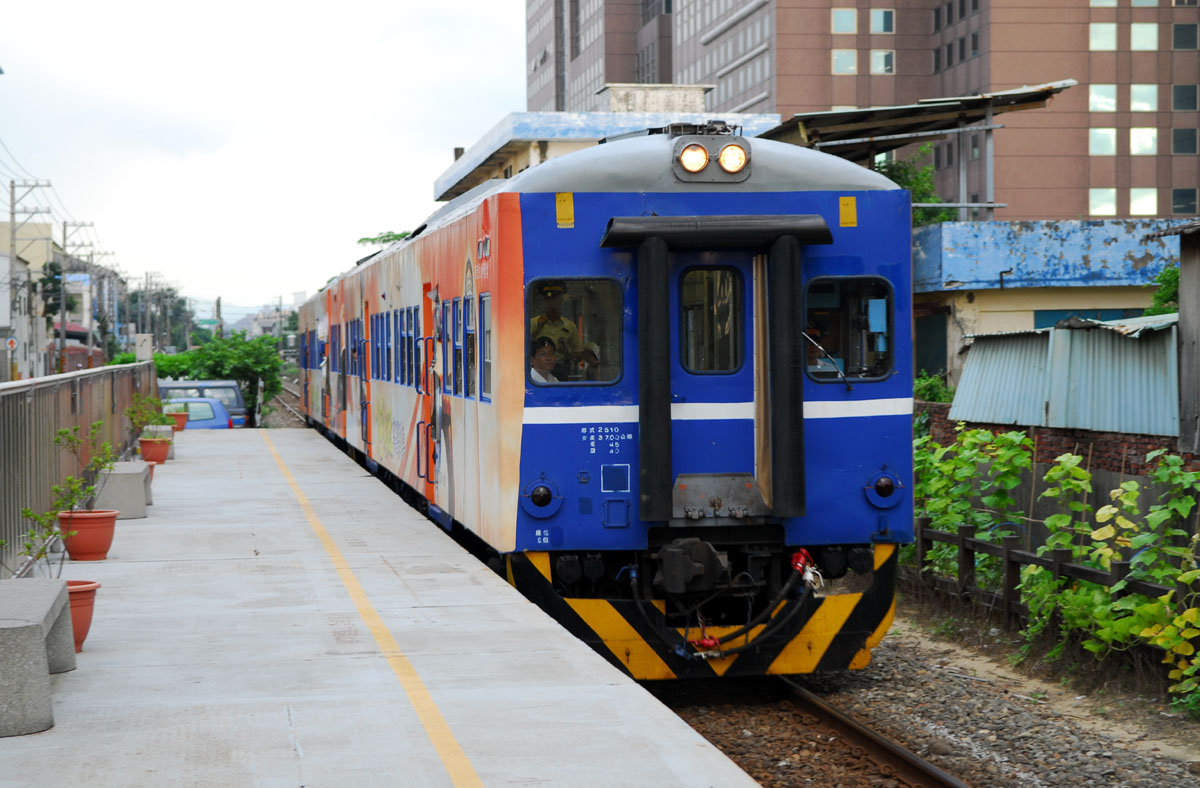 Linkou Line is originally a cargo rail line owned and operated by Taiwan Railway Administration (TRA). Since 2005 Taoyuan County government and TRA have cooperated to provide a free passenger rail service during week days. In the photo we can see the DR2510 diesel rail cars approaching Nanshiang Station, one of the five stations currently available for passenger service.